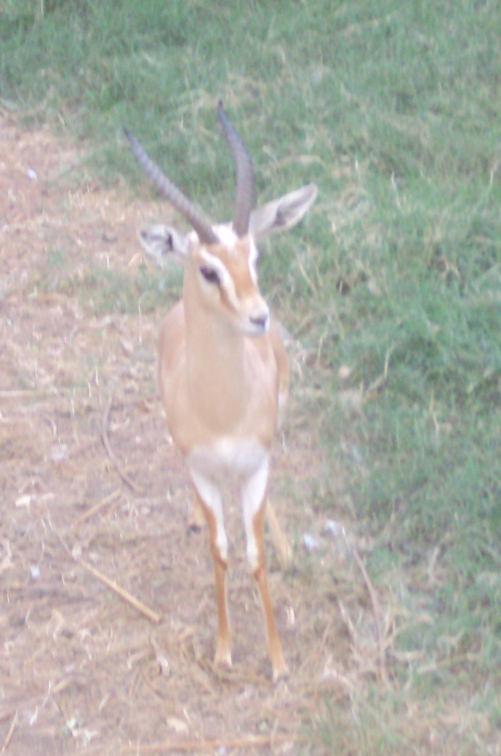 غزال مصري بحديقة الحيوان بالجيزة